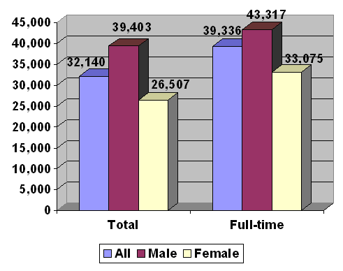 Median personal income for the population age 25 or older in 2005 Created using data from the US Census Bureau taken from here. All figures only apply to those above the age of 25.